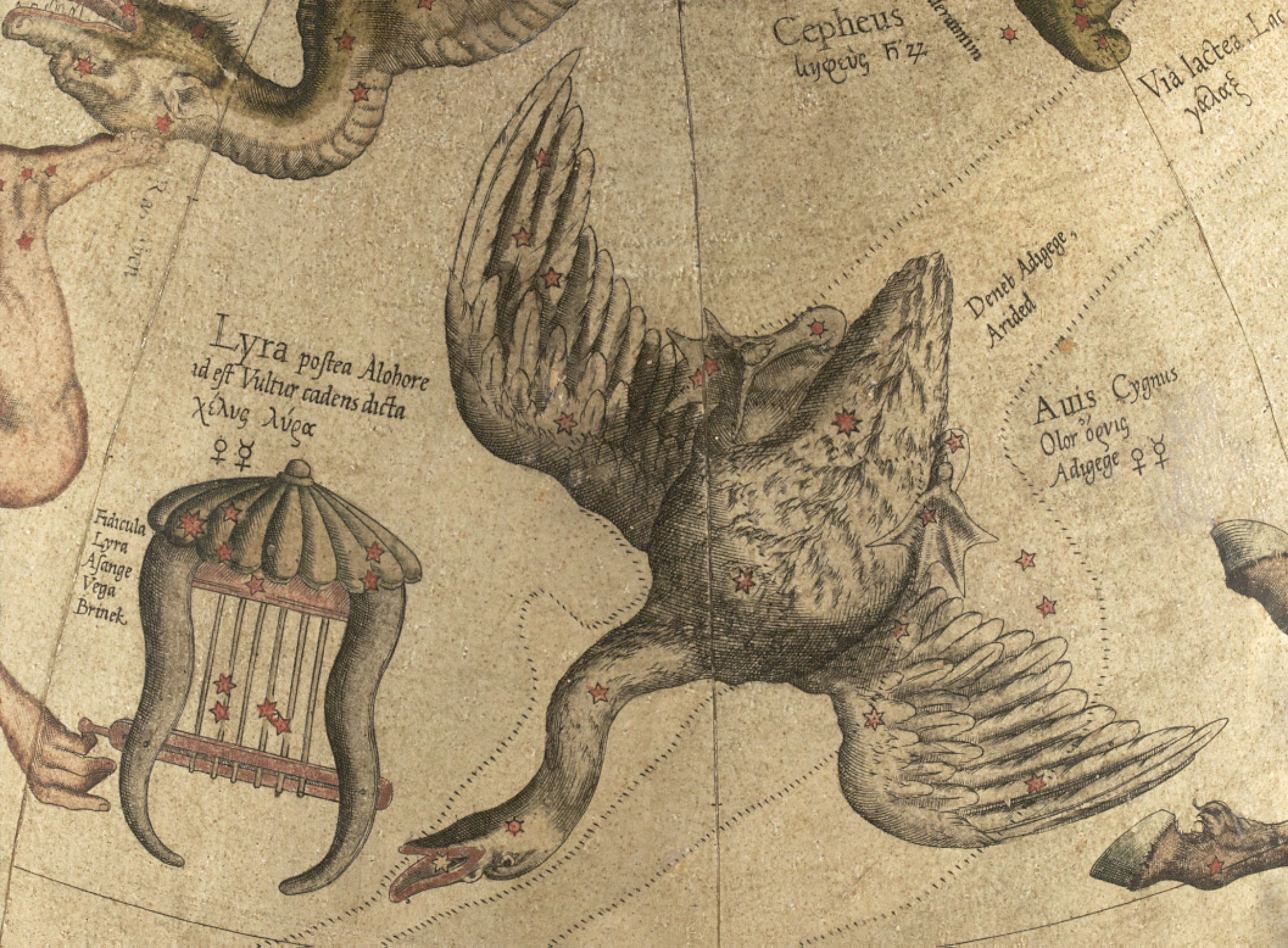 Cygnus and Lyra constellations from the Mercator celestial globe.